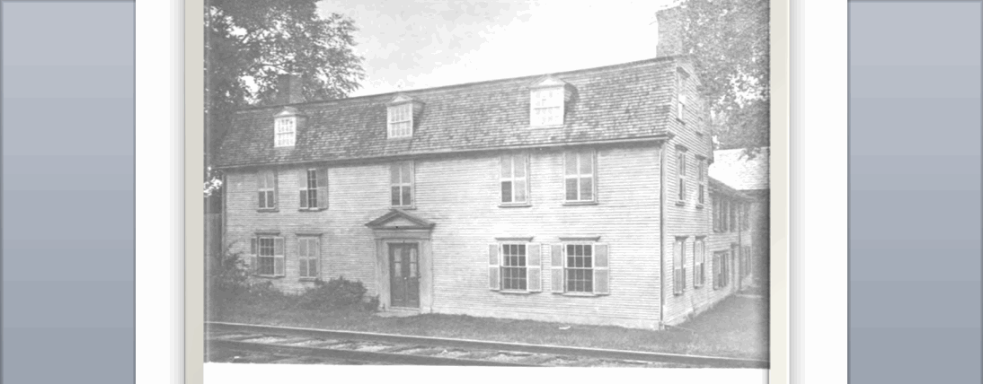 photo of Seth Read House Uxbridge MA from 1800s, no current copyright. This is a photo of an old photo from a historical work